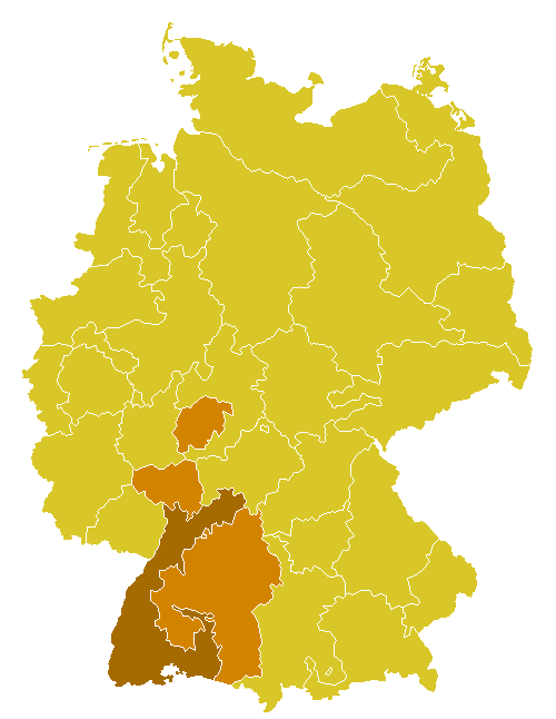 church province of Freiburg, Germany